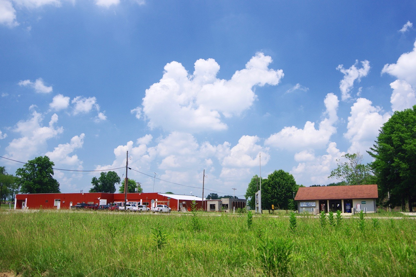 Buildings at the intersection of State Road 558 and Blandy Street in Crane, Indiana, United States.